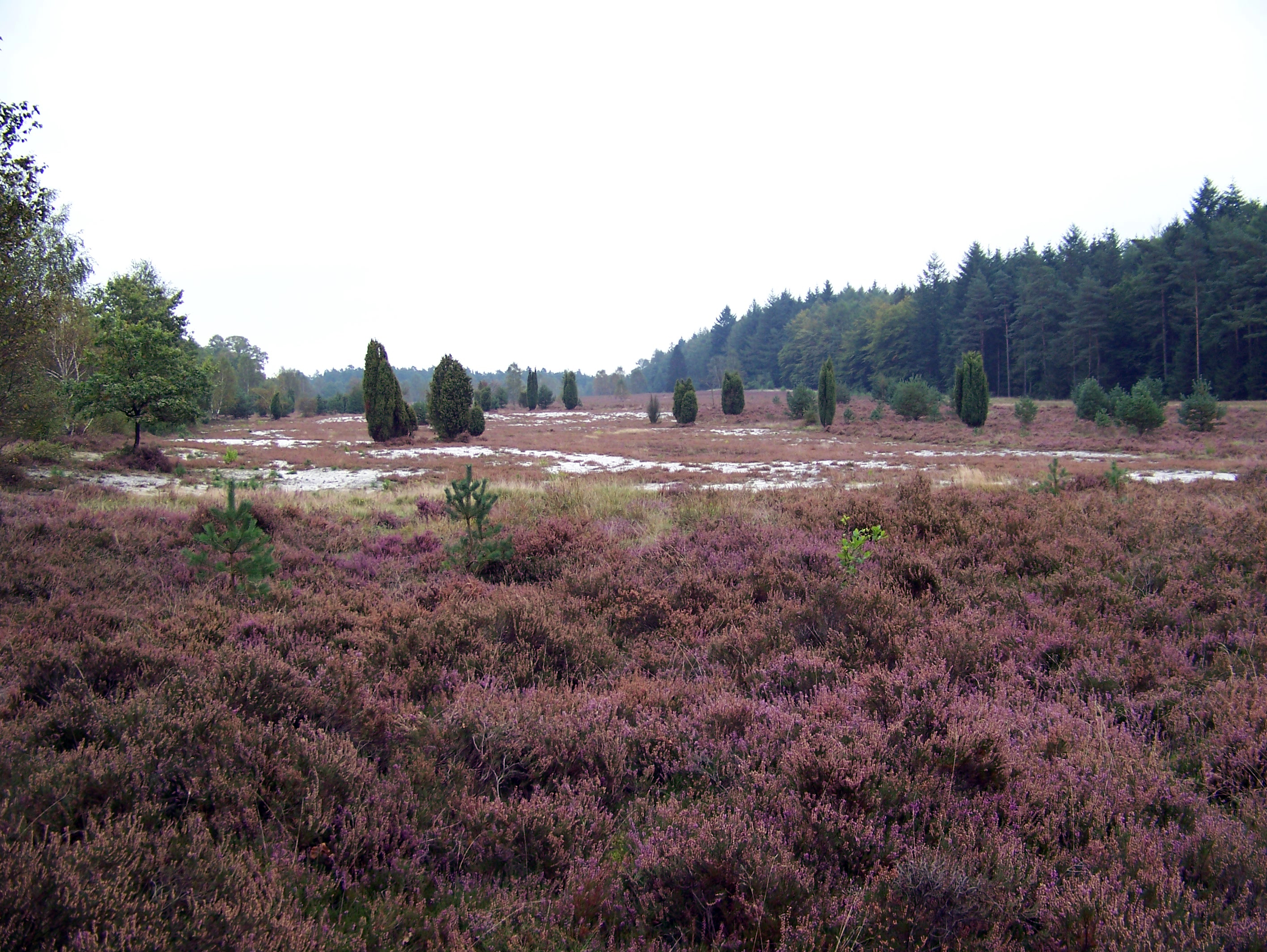 Undeloh, Lüneburg Heath: Heathlands scenery around the hamlet of Wehlen, amidst the Heath Nature Park, Lower Saxony, Germany.